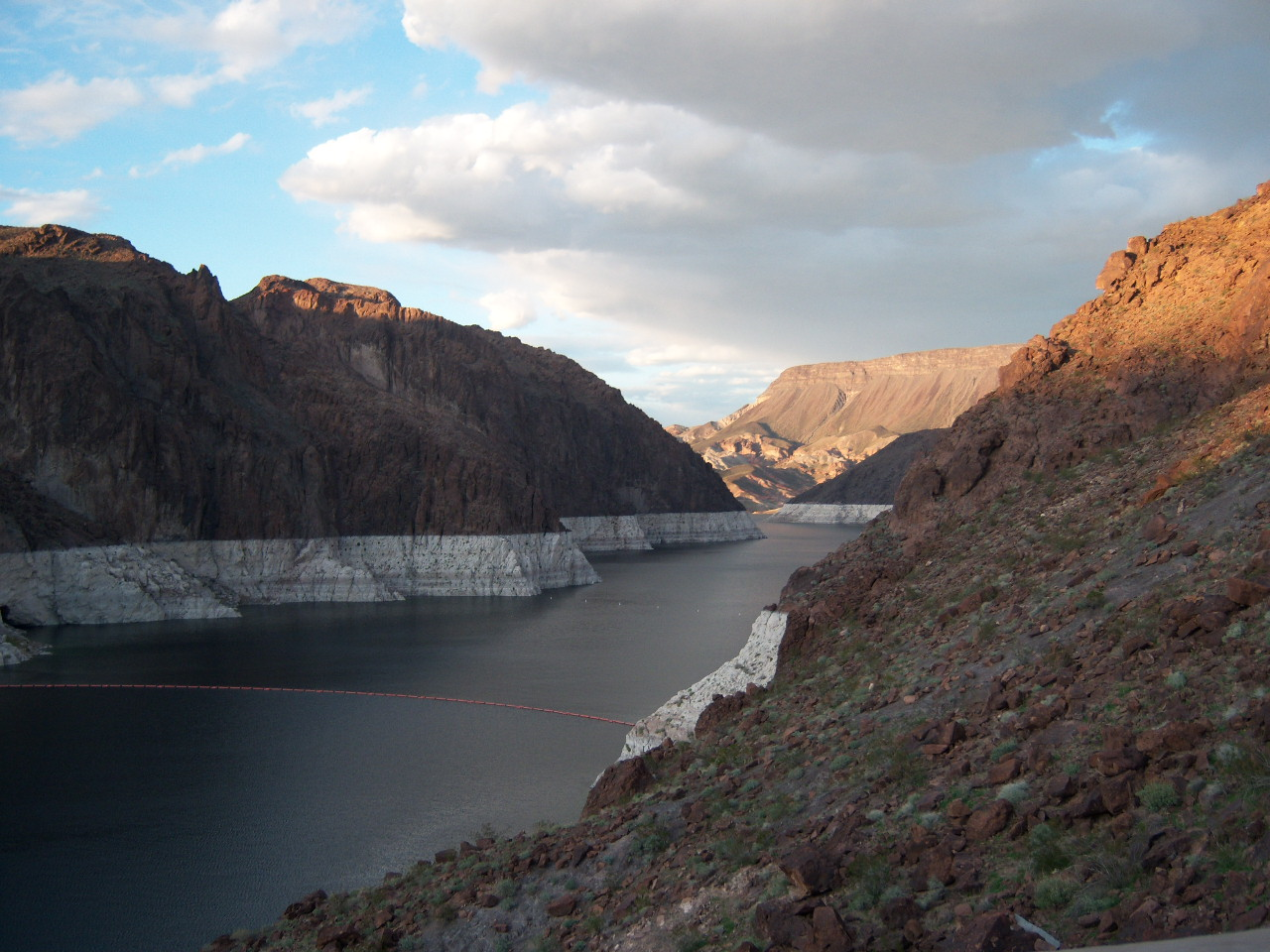 Lake Mead near Hoover Dam. The white represents how high the water used to be.